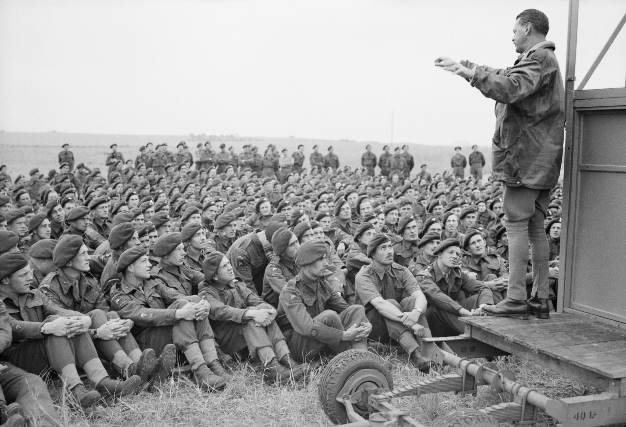 The British Army in the United Kingdom 1939-45 Major-General Richard Gale, GOC 6th Airborne Division, addresses his men, 4 - 5 June 1944.